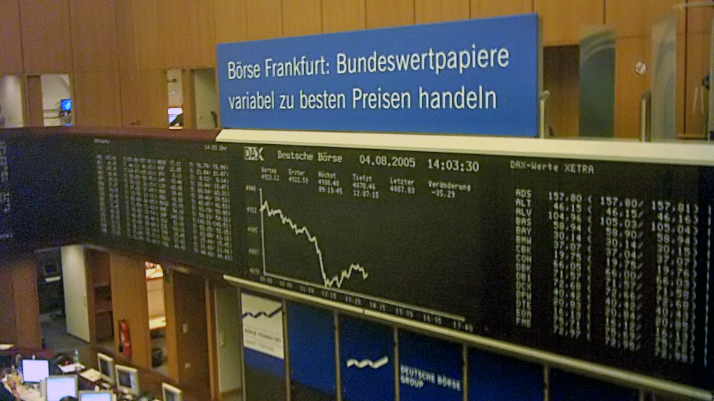 Stock exchange of Frankfurt/main in Germany. (Frankfurter Wertpapierbörse) creator:me (Thomas Richter/user:THOMAS) + image manipulation by aka